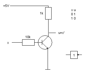 Inverting Gate